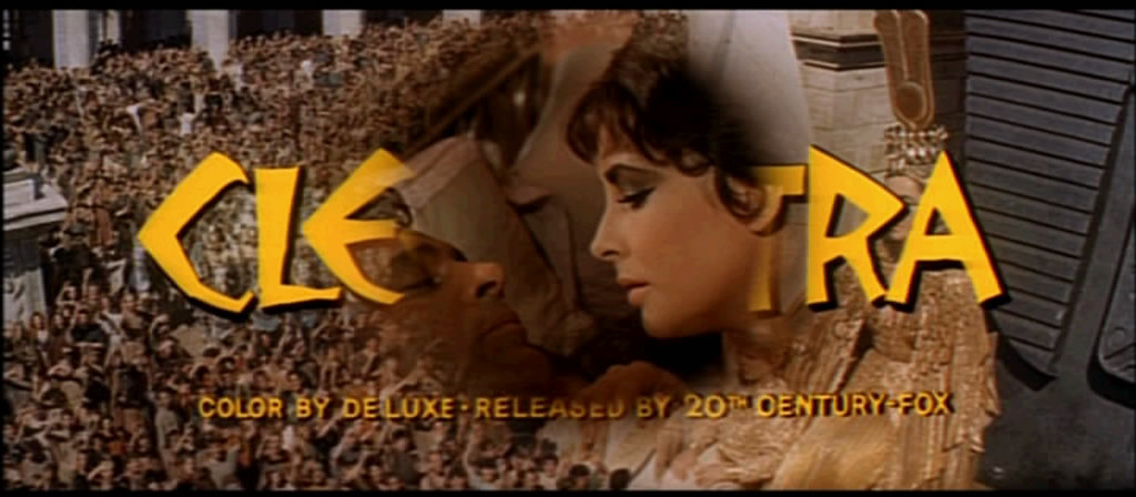 Screenshot from the trailer for the film Cleopatra.